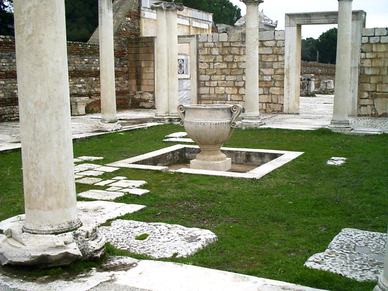 Sardis synagogue courtyard. Remains of the Sardis Synagogue at the archaeological site of Sardis, near present-day Sart in the Manisa province of Turkey.